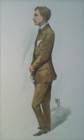 Caricature of Mr Gustav Hamel. Caption read "Flight".